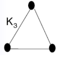 Ví Dụ Không Phải Đồ Thị Hai Phía